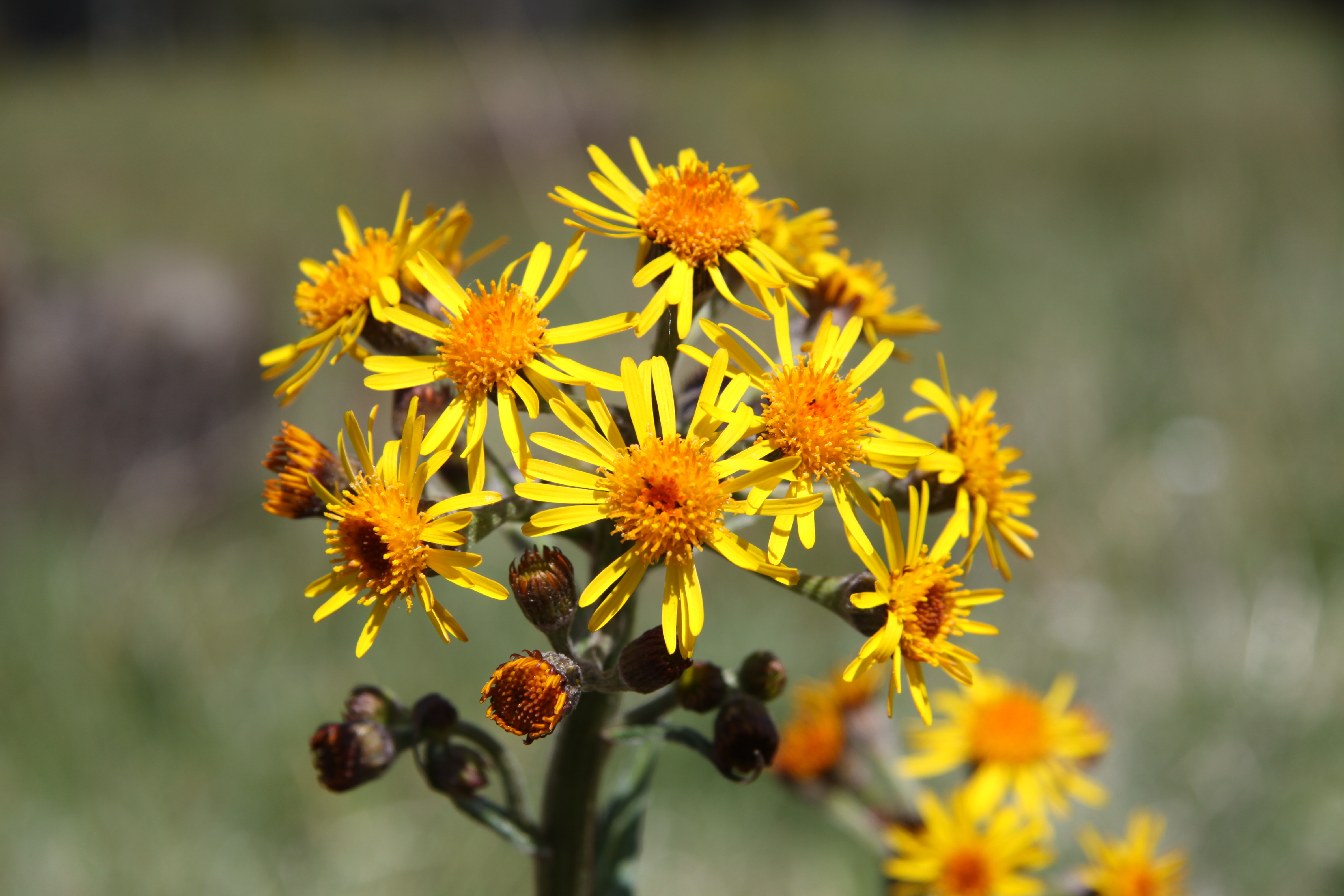 Tephroseris crispa. Natural monument Podhájí near Vacov village in Prachatice District, Czech Republic - Google Maps - Google Earth